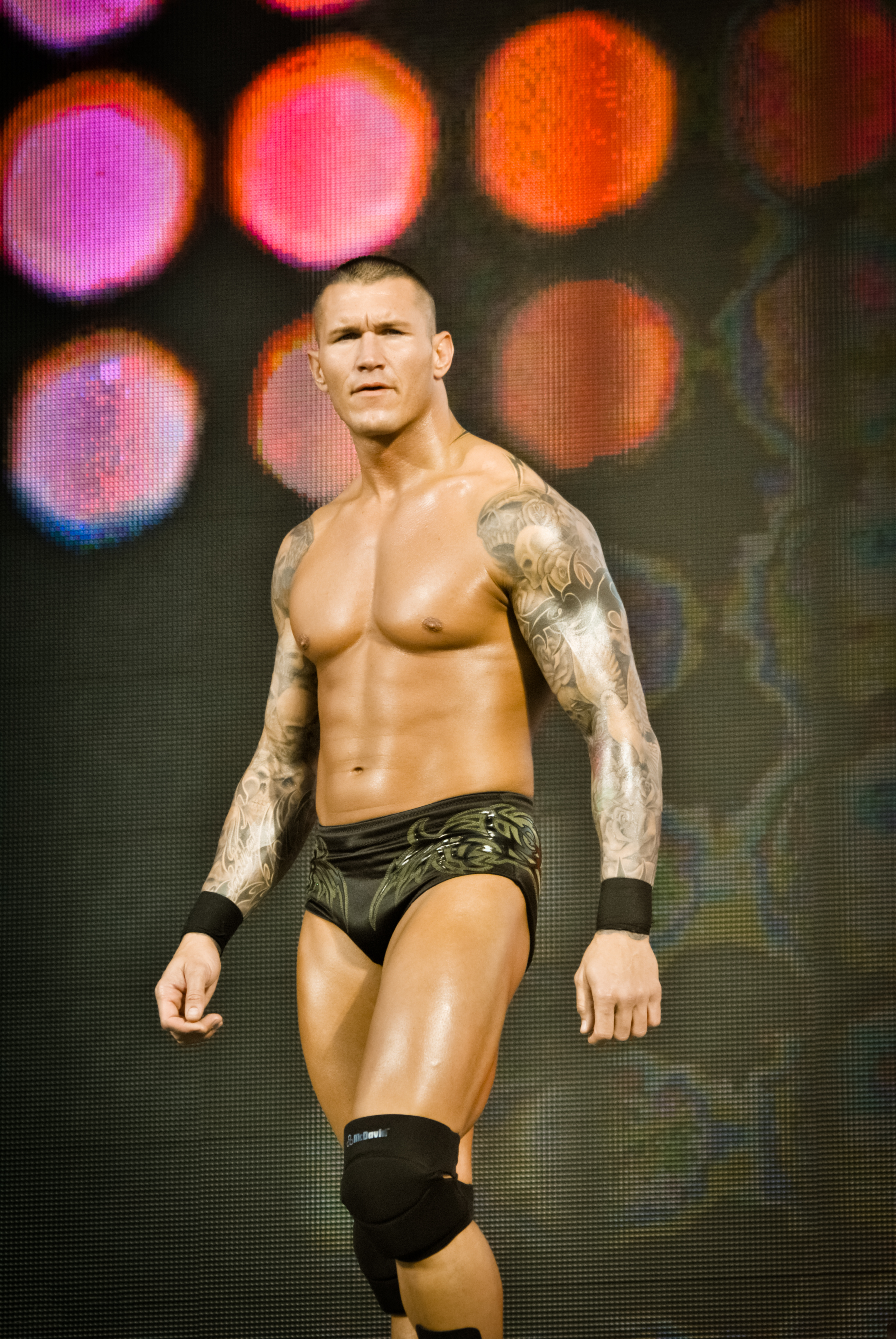 Randy Orton at WWE's Tribute to the Troops show in Fort Hood, Texas, on December 11, 2010.